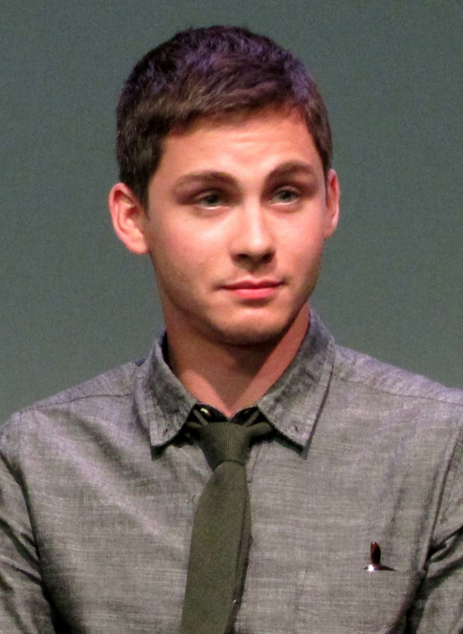 Logan Lerman attends the Apple Store Soho Presents: Meet the Filmmakers ‘Percy Jackson: Sea Of Monsters’ at Apple Store Soho on July 29, 2013 in New York City.